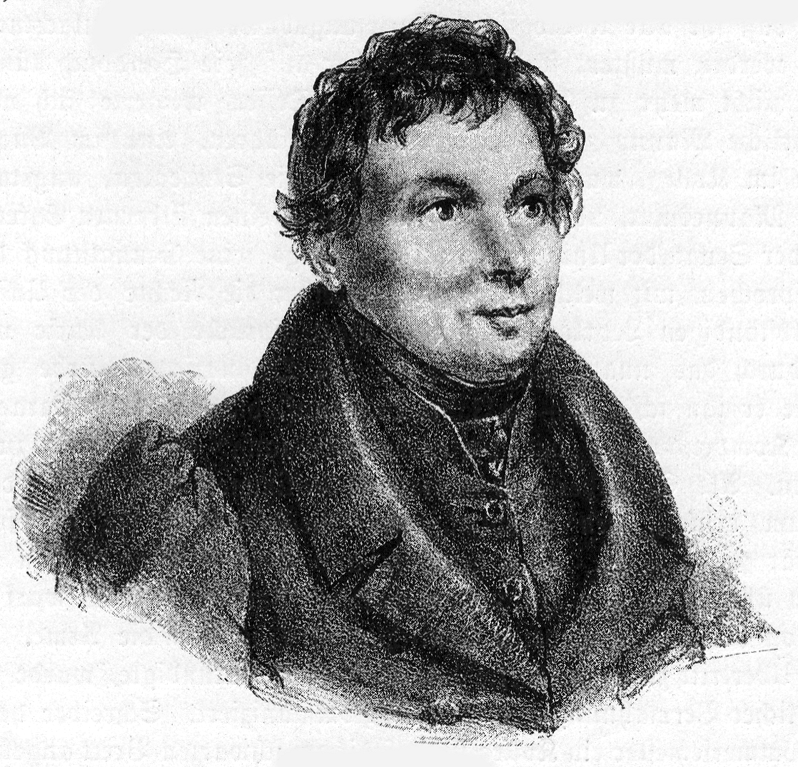 Heinrich Schreiber, Professor of theology in Freiburg and local historian